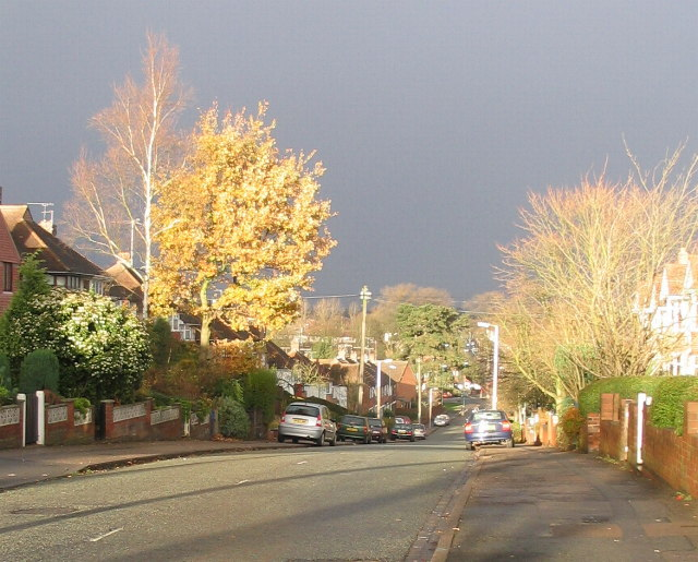 Glendower Avenue, Whoberley Looking down Glendower Avenue towards the scots pines at the junction with Brookside Avenue. An afternoon of bright sunshine between heavy rain showers.